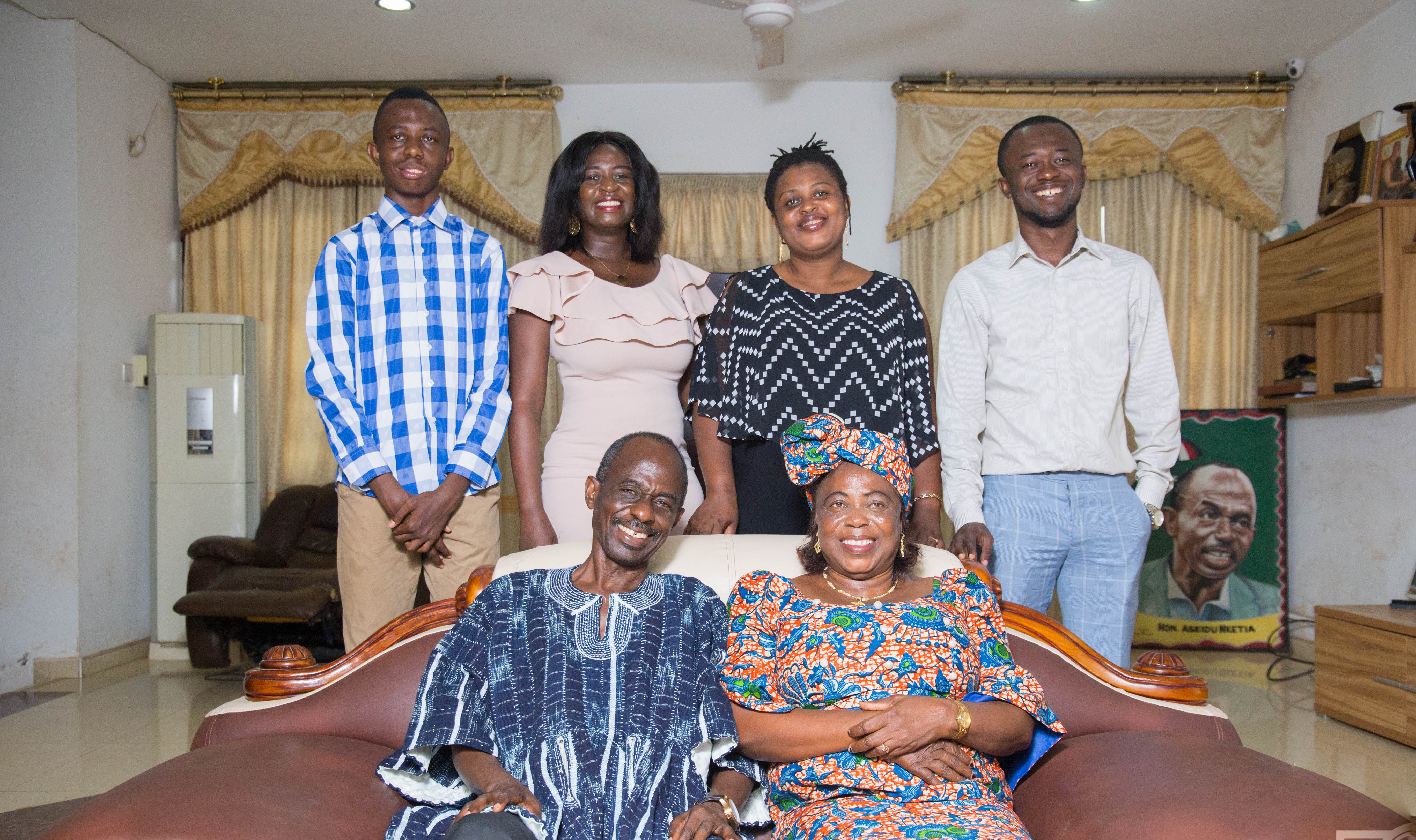 Hon Johnson Asiedu Nketiah with his wife, Mrs Vida Adomah Nketiah, and children, Amma Addae Nketiah, Kwaku Asiedu Nketiah, Yaa Asantewaa Nketiah, Afia Afra Nketiah and Kwame Boateng Nketia